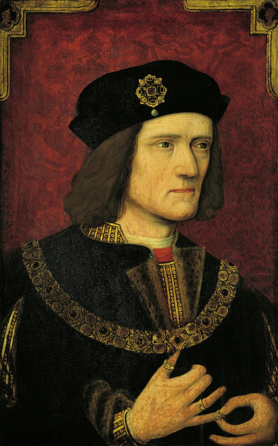 based on lost contemporary original of Richard III of England, in the British Royal Collections. It shows later alterations to raise the height of the right shoulder and narrow the eyes. The medallions in the upper corners of the painting represent the Emperor Constantine I and his mother Helena. This painting is the source of the later 16th-century version in the National Portrait Gallery, London.